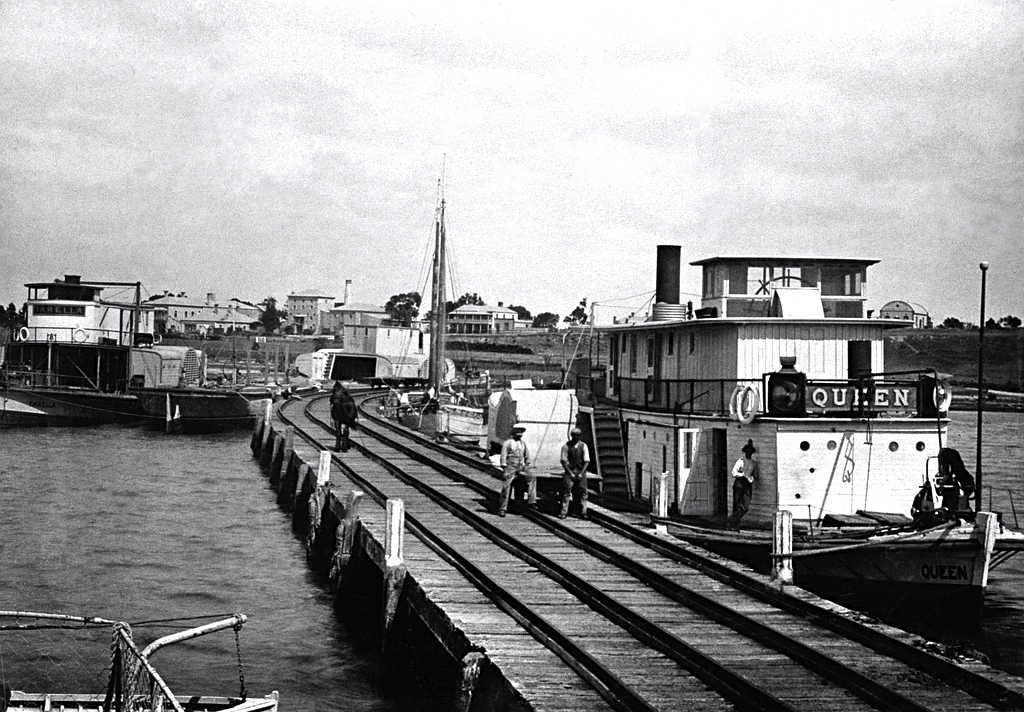 Paddle steamers ("Queen" and "Tarella", and another in the background) are moored at the jetty at Milang, on the River Murray, South Australia. A double-track, 1067 mm (3ft 6ins) gauge railway is on the jetty; a horse stands between the rails and two men nearby rest on a railway wagon. Buildings of Milang's riverfront street, Daranda Terrace, including a flour mill, hotel and butter factory, are in the background.